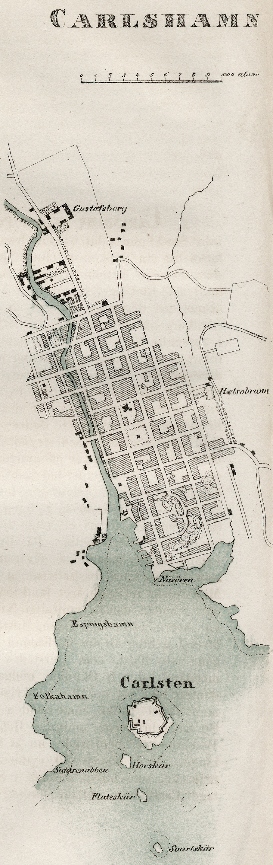 Map from about 1850 of the town of Karlshamn in Sweden.